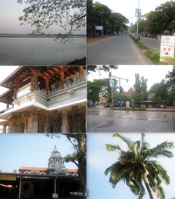 Kundapur taluk